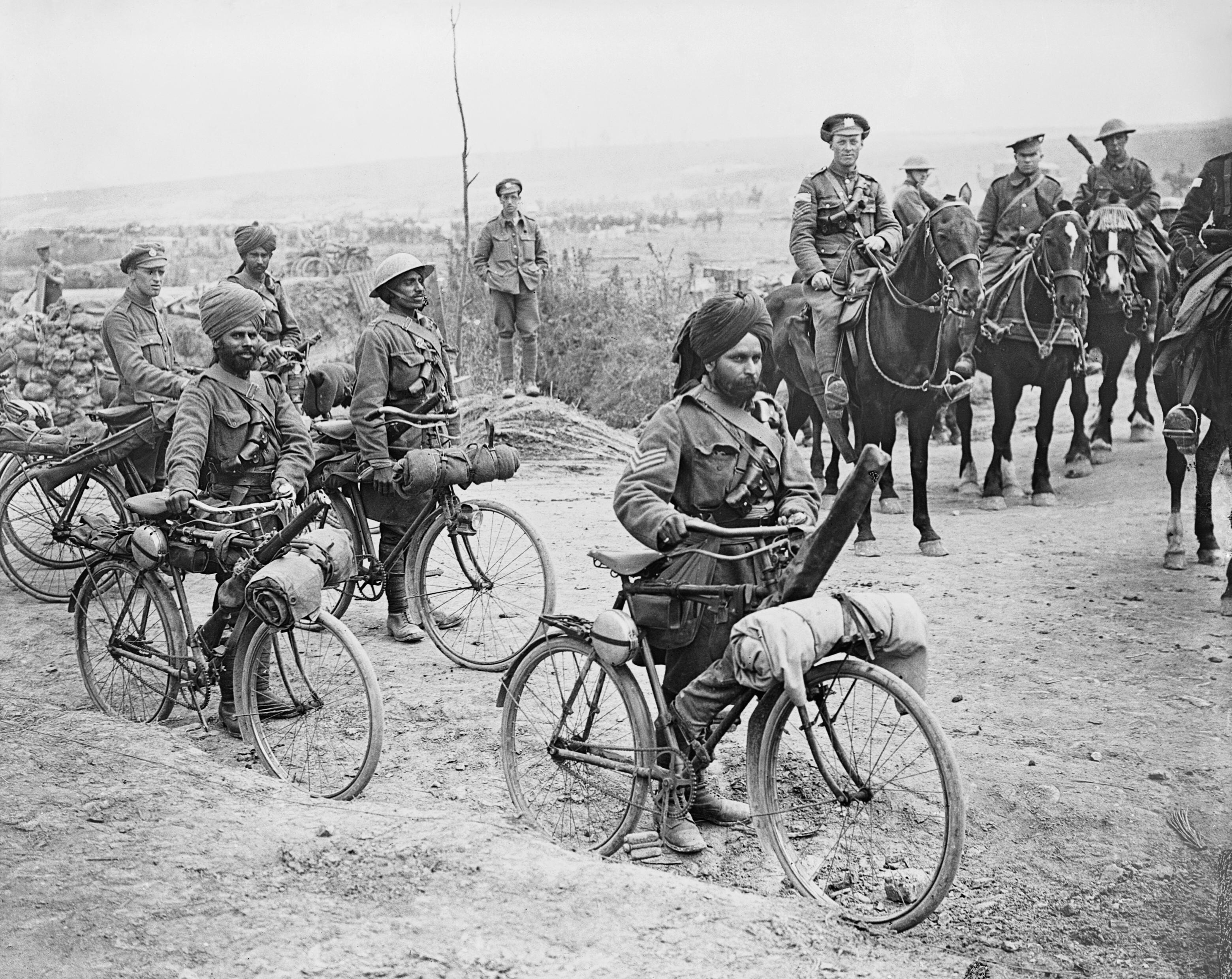 Indian bicycle troops at a crossroads on the Fricourt-Mametz Road, Somme, France.